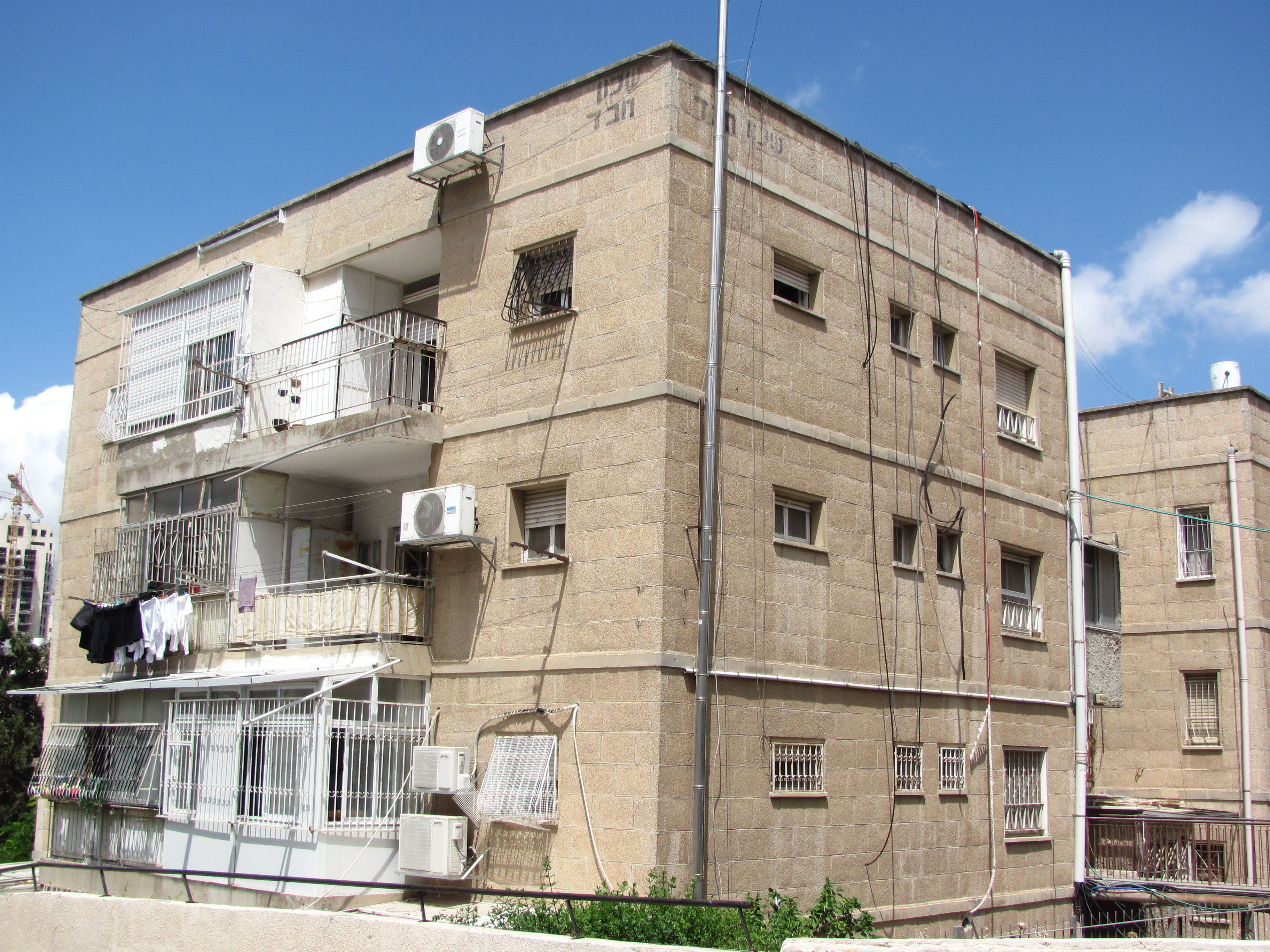 Original buildings in Shikun Chabad, Jerusalem. The name of the housing project is stamped in Hebrew letters on the upper righthand corner of the front building.